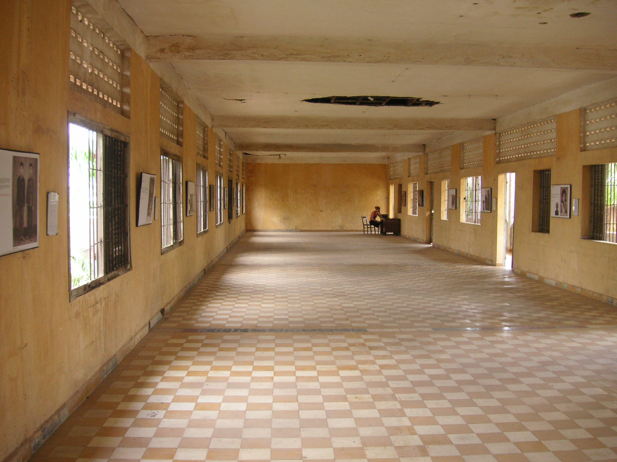 This room exhibits descriptions of individual fates under the khmer rouge regime.